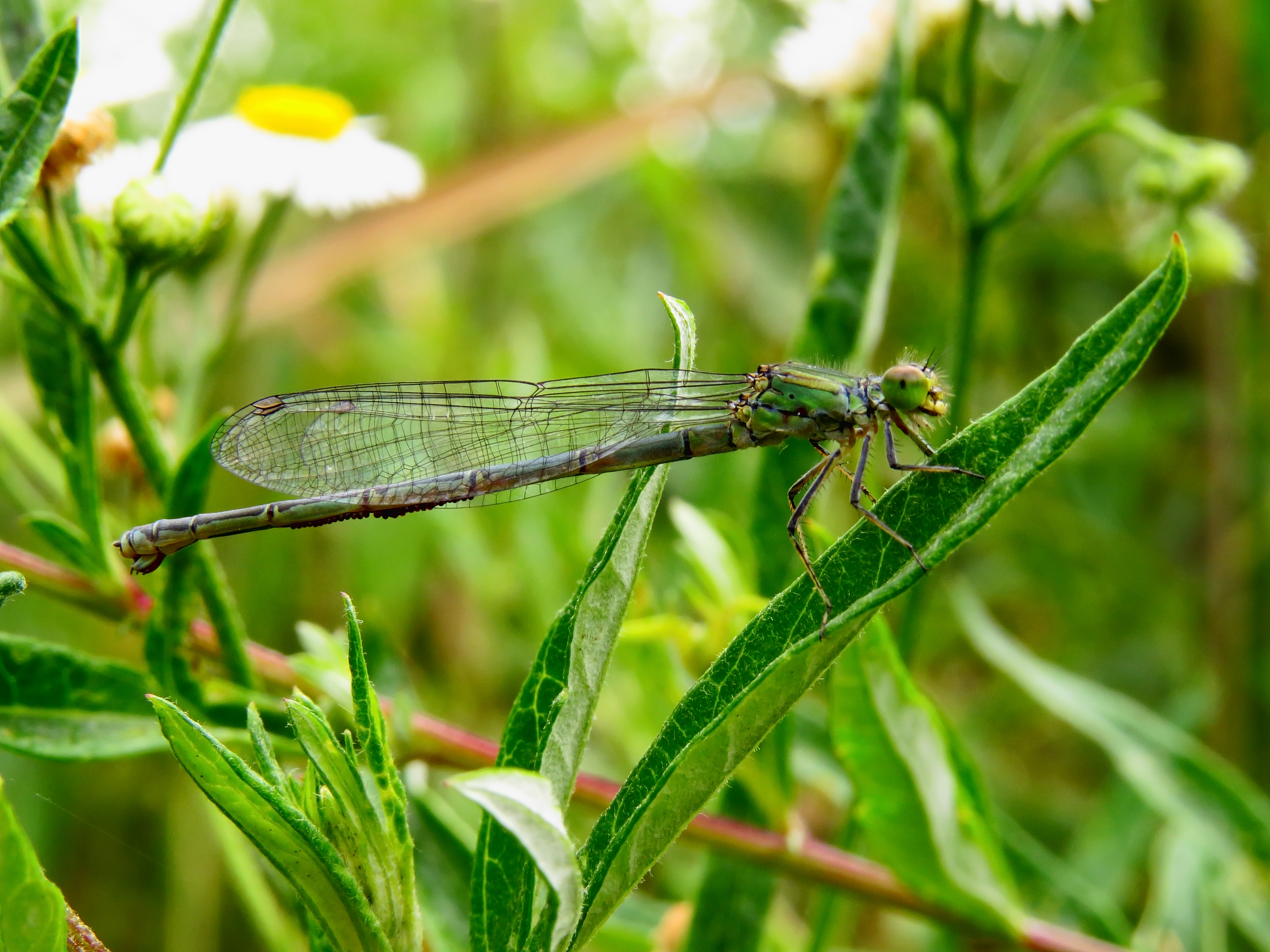 Erythromma viridulum in Zazymya, Brovary raion, Kiev oblast, Ukraine